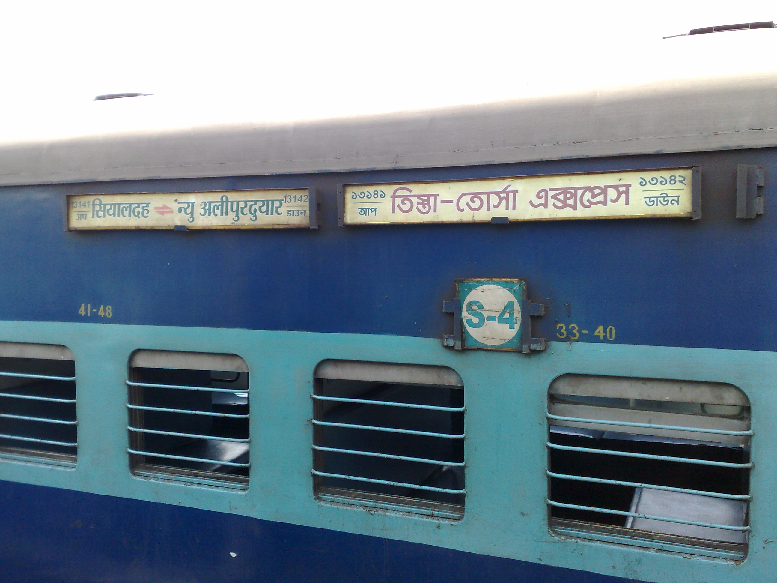 13141 Teesta Torsa Express